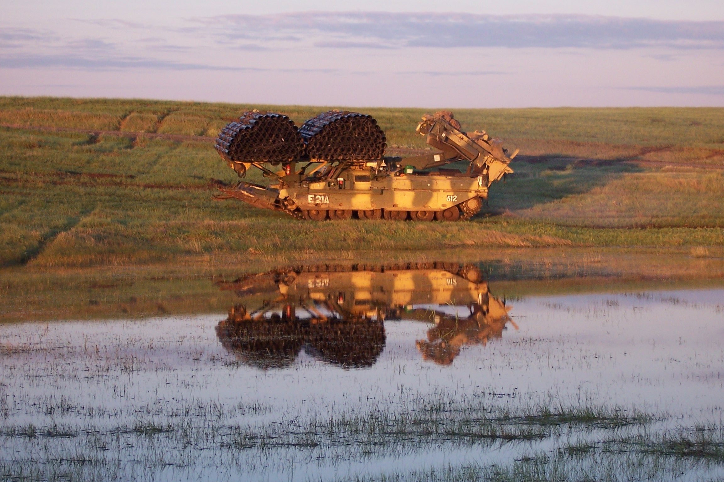 Chieftain Armoured Vehicle Royal Engineers in Canada